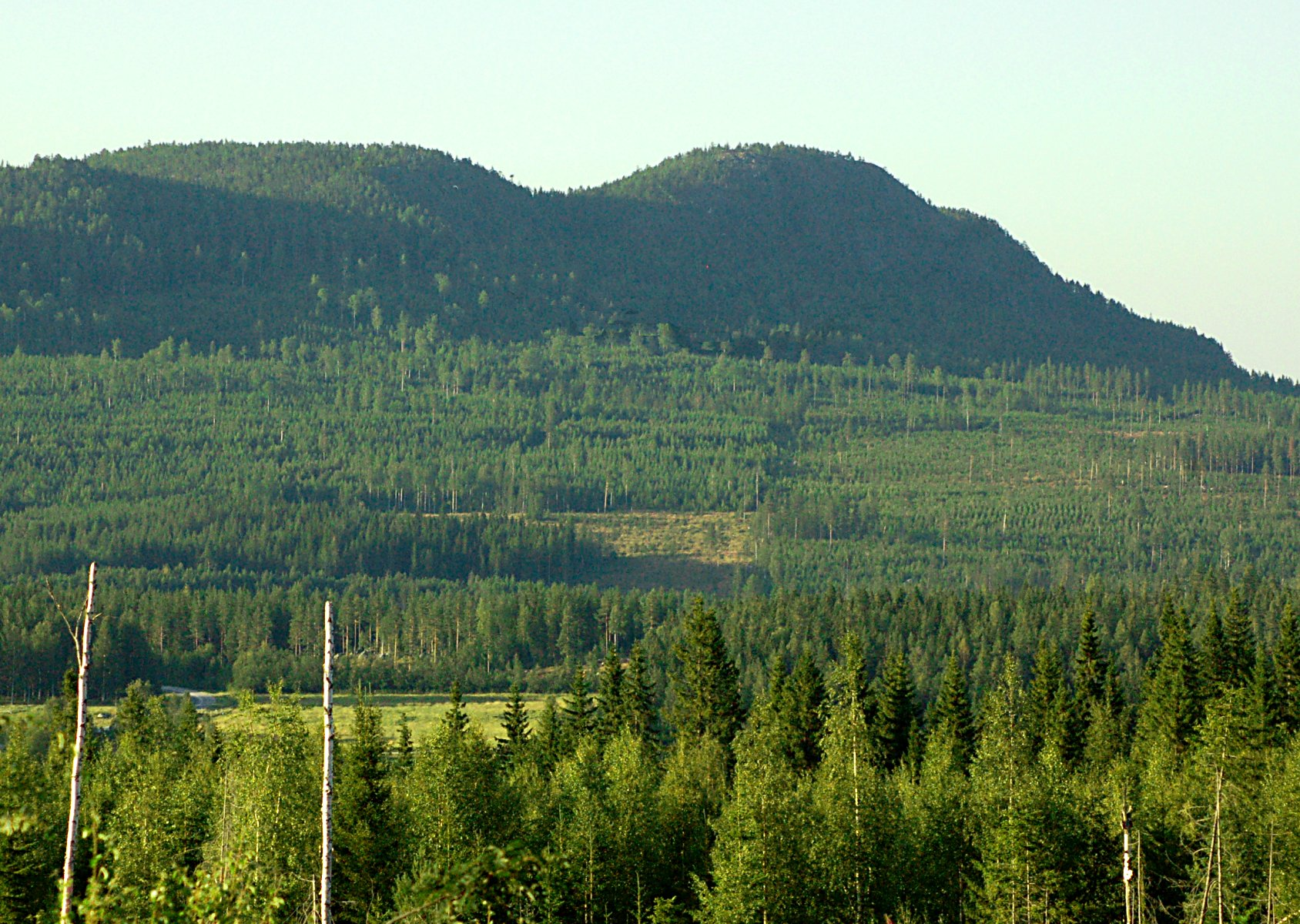 Mount Balberget, Bjurholm, Sweden.